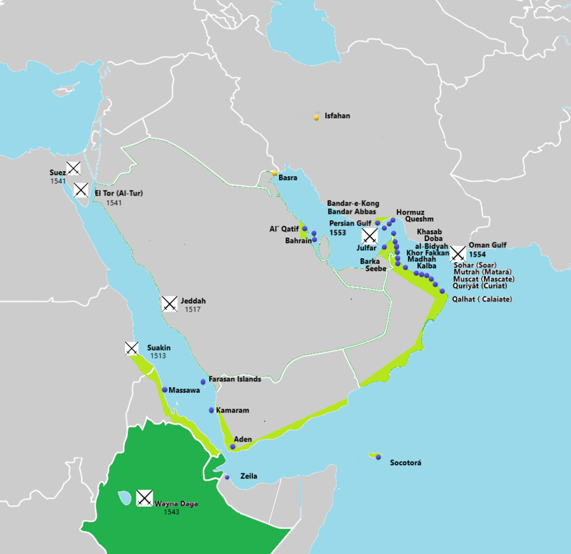 Portuguese in the Red Sea